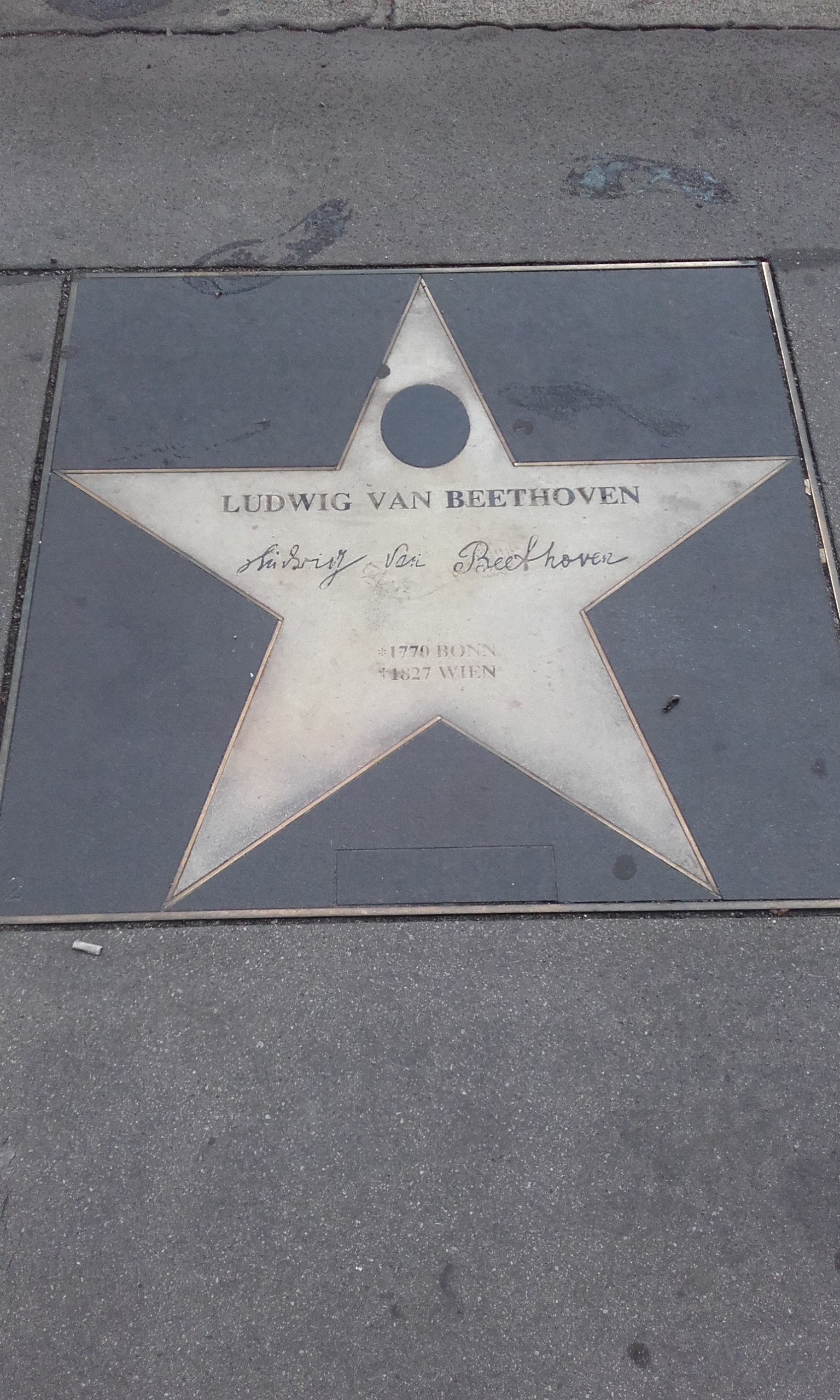 Located in the old part of the city.